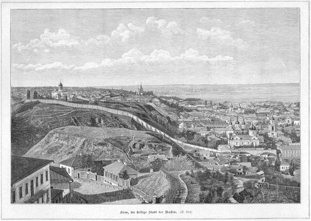 Podil subdistrict of Kiev